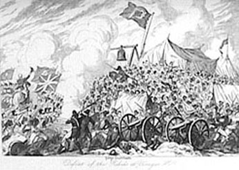 George Cruikshank ( 1792-1878.) Defense of the rebels at Vinegar Hill.